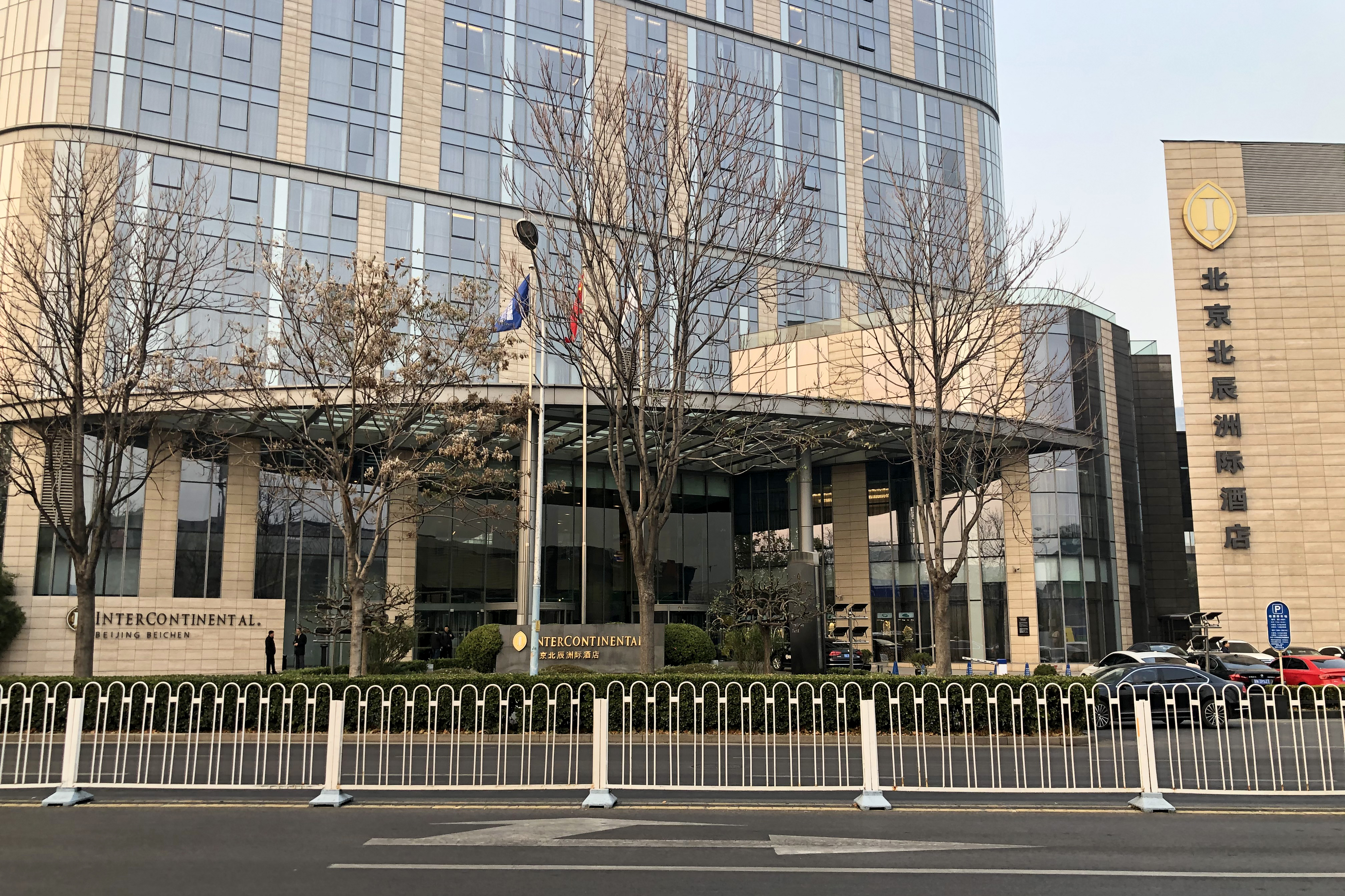 West of Olympic Green.